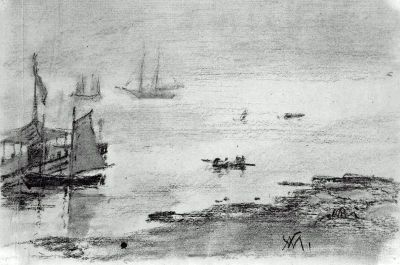 Charcoal on paper drawing by artist William Morris Hunt entitled "Maine, View of Appledore," executed in 1879. Courtesy of the Museum of Fine Arts, Boston, Massachusetts